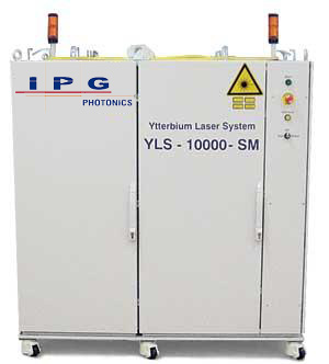 10,000 Watt Single Mode Laser